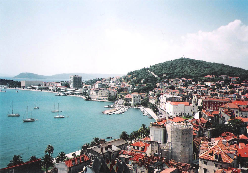 View of Split (photograph is scanned)